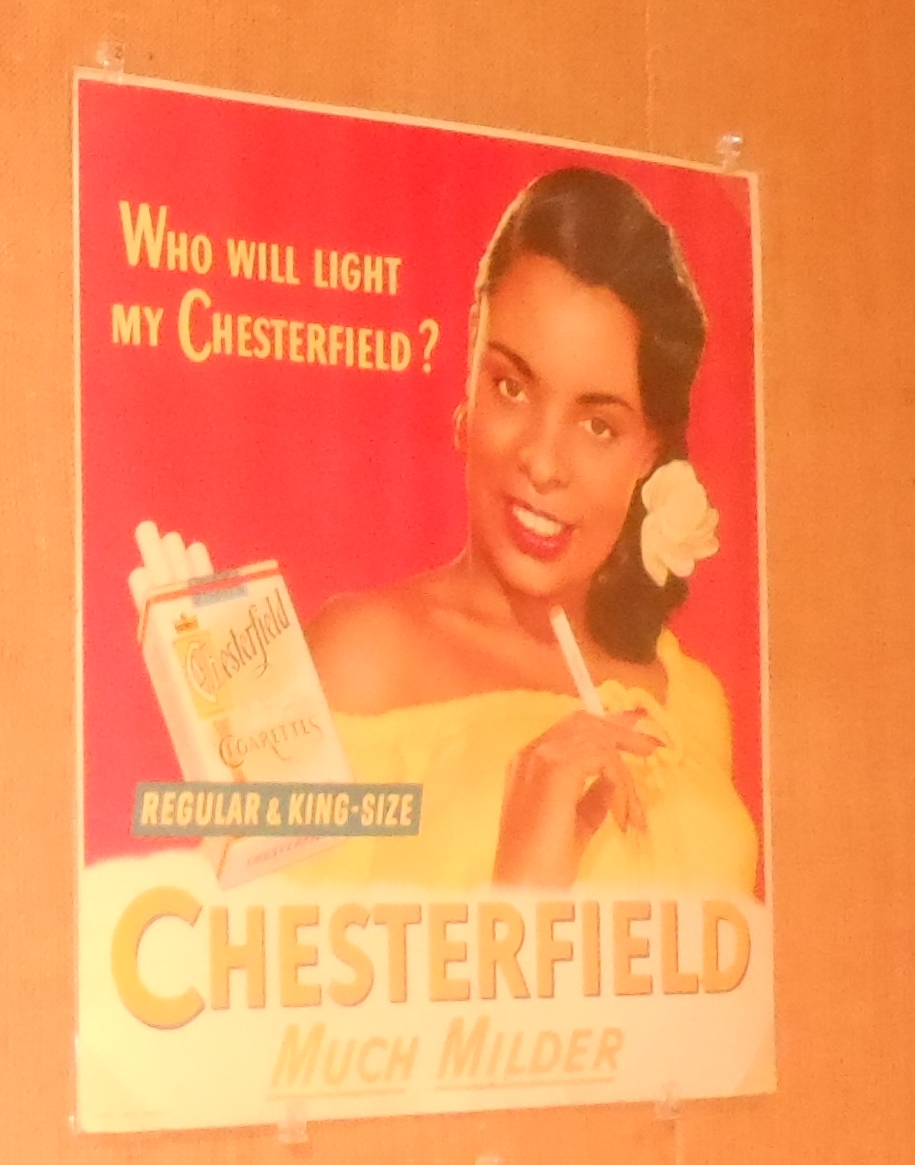 Classic 20th century advertisement of Chesterfield cigarettes